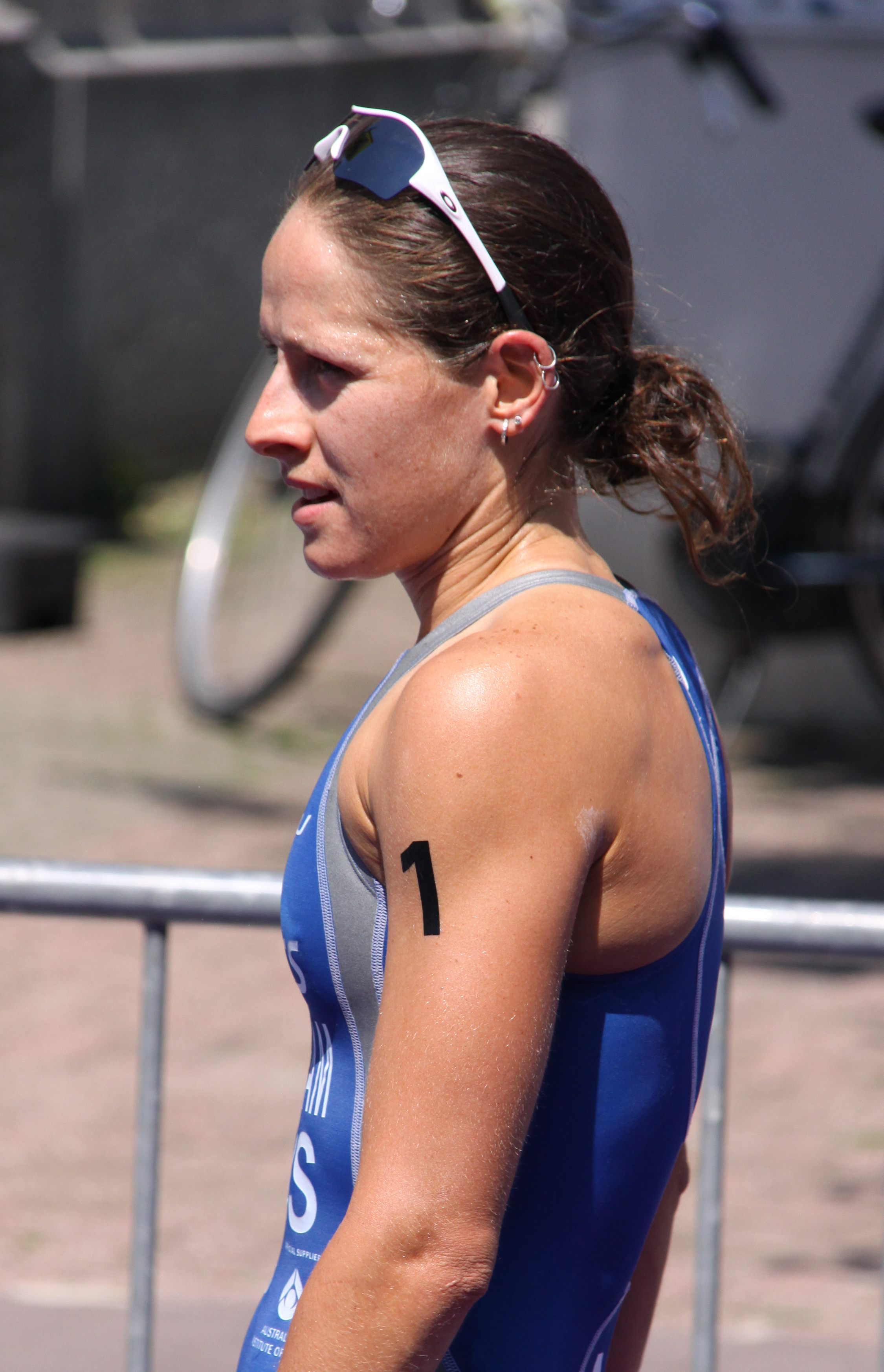 Erin Densham winning the Premium European Cup at Brasschaat, 2010.